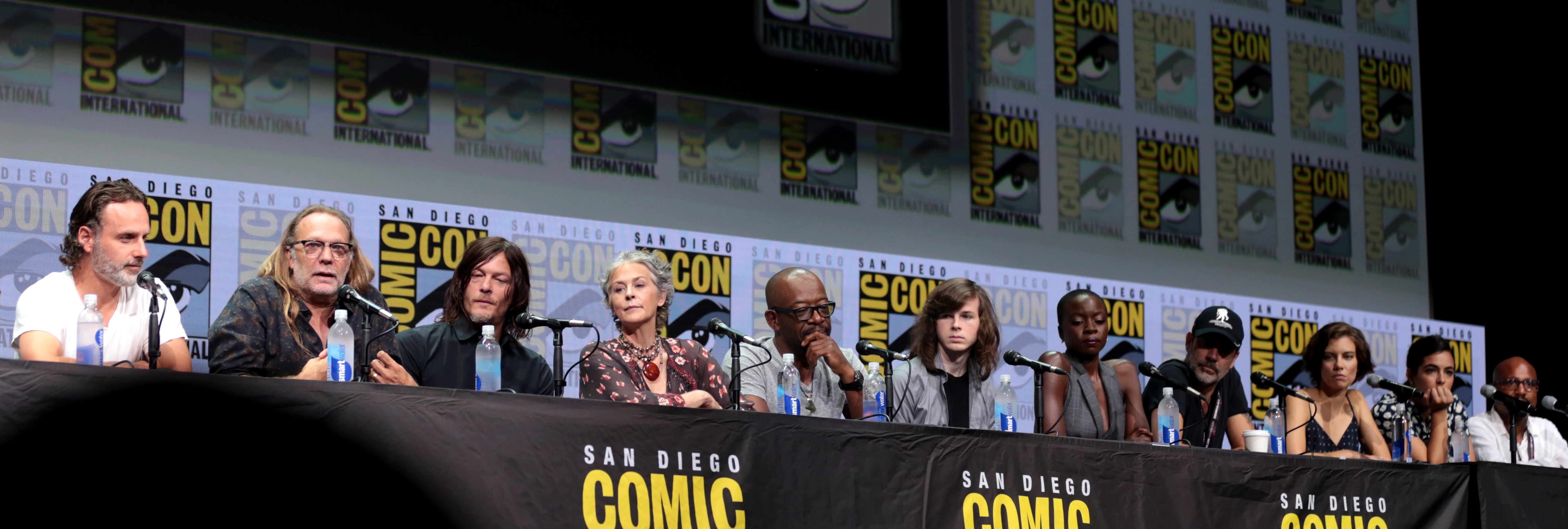 Andrew Lincoln, Greg Nicotero, Norman Reedus, Melissa McBride, Lennie James, Chandler Riggs, Jeffrey Dean Morgan, Lauren Cohan, Alanna Masterson and Seth Gilliam speaking at the 2017 San Diego Comic Con International, for "The Walking Dead", at the San Diego Convention Center in San Diego, California.